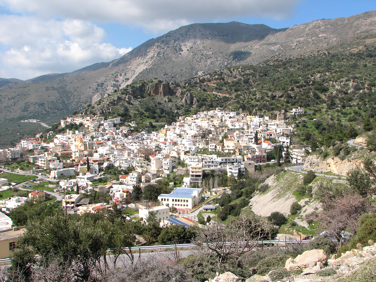 View of Ano Viannos in February 2012.